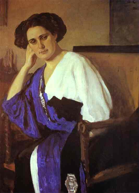 Portrait of Yelena Balina. 1911. Oil on canvas. The Art Museum of Nizhniy Novgorod, Nizhniy Novgorod, Russia.